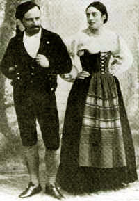 Postcard published circa 1900 of Gemma Bellincioni as Santuzza, and her husband, Roberto Stagno, as Turiddu, in the 1890 première of Cavalleria rusticana